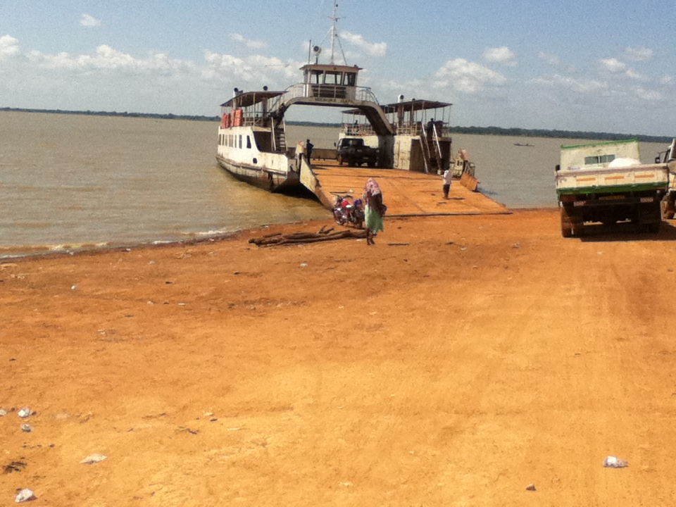 Ferry loading passengers to set off